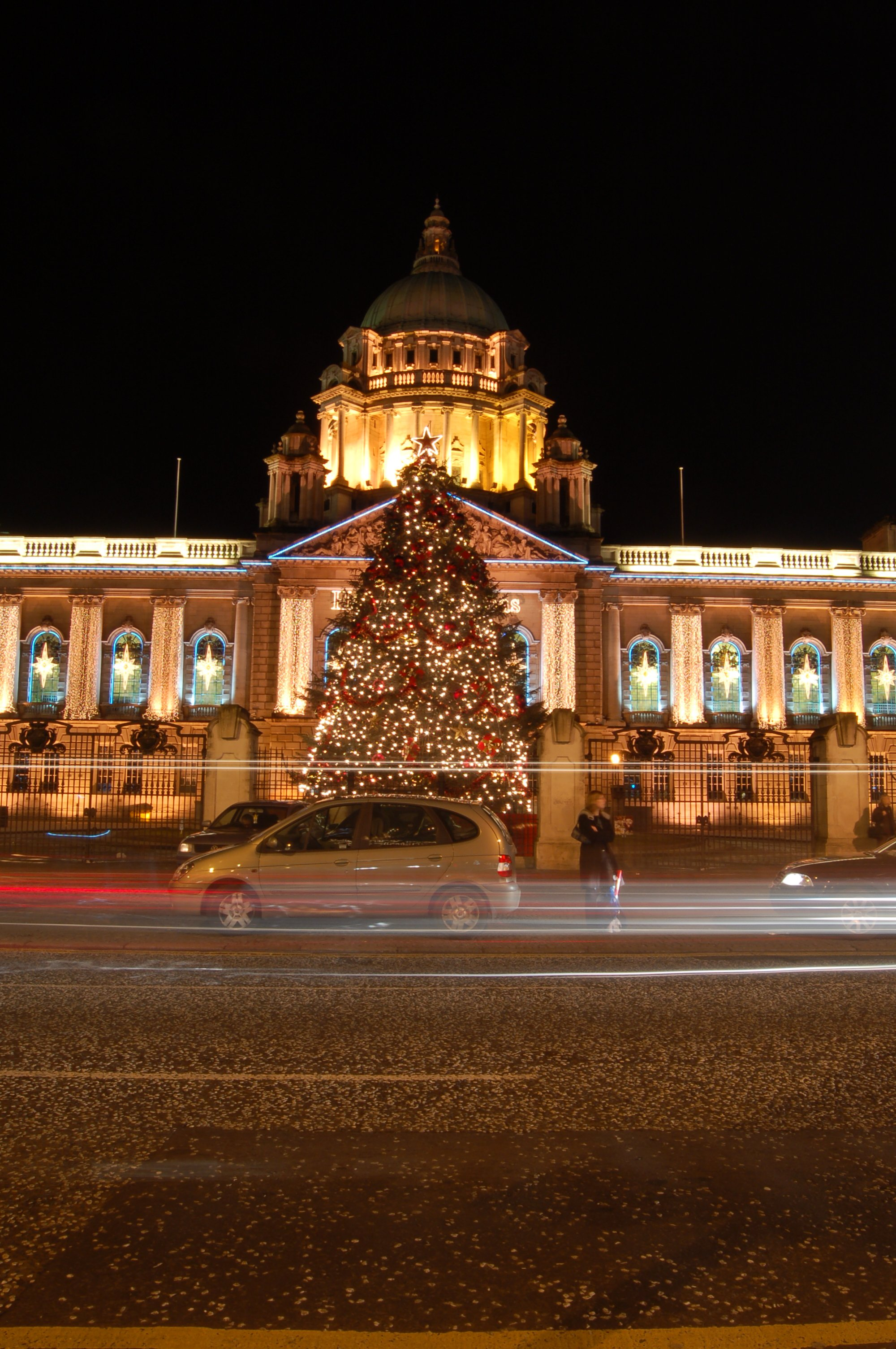 (C), Gerry Lynch, 2006. Belfast City Hall at night in the Christmas period.